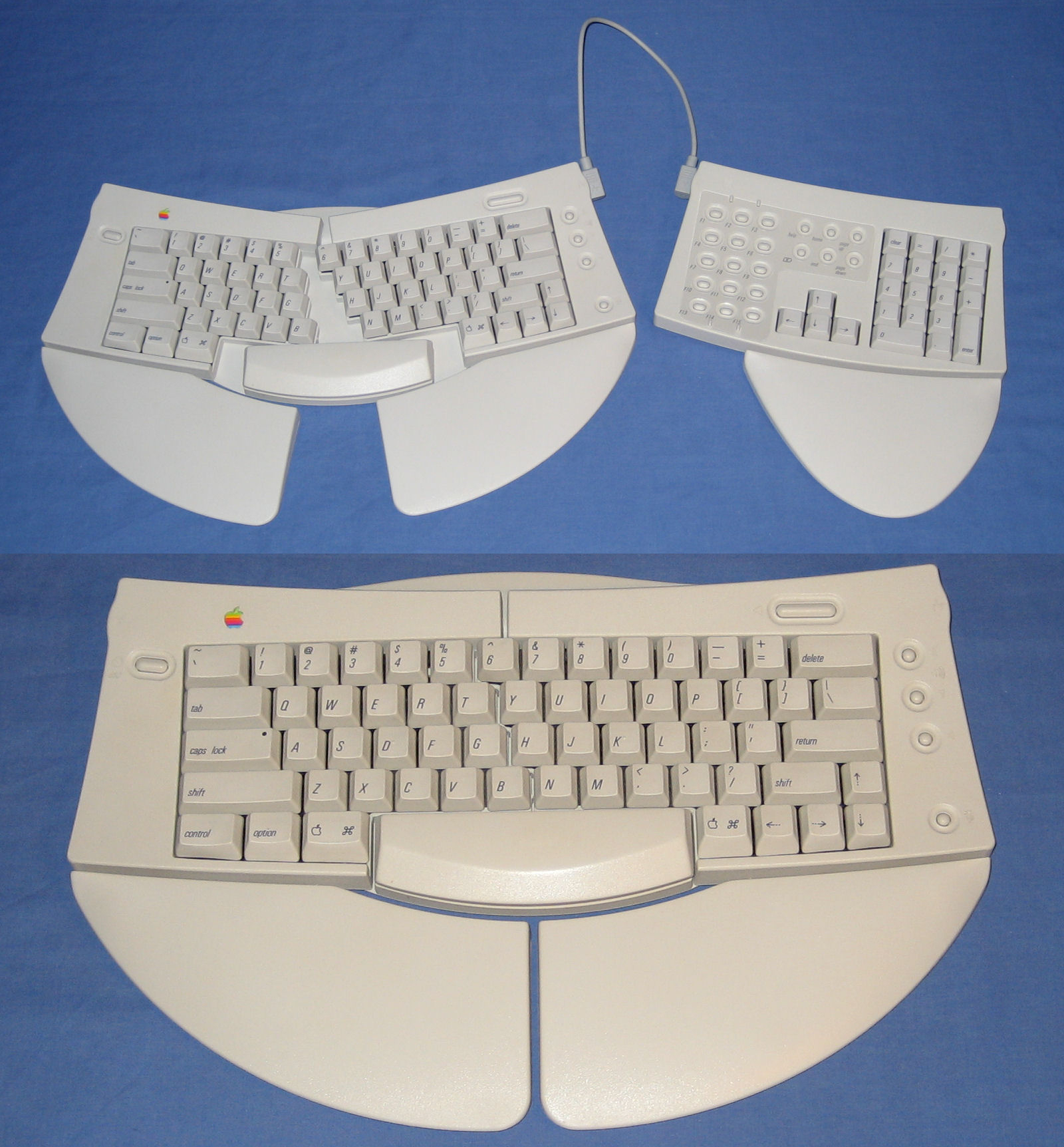 The Apple Adjustable Keyboard M1242 is an adjustable keyboard made by Apple Computer in 1993.